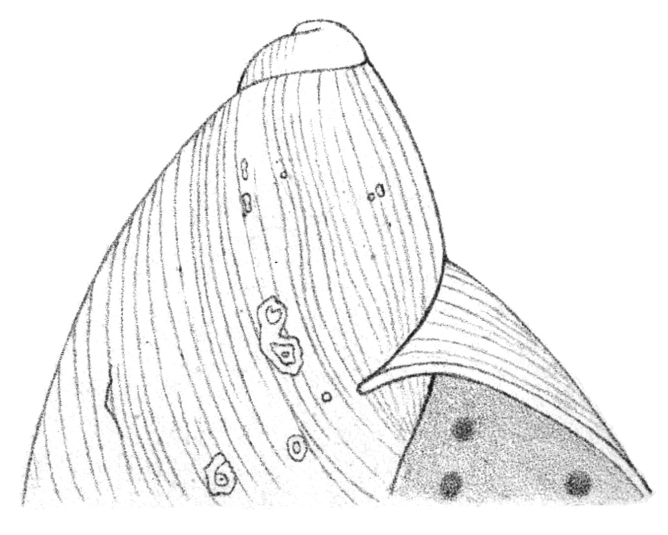 Drawing of apical part of an apertural view of the shell of Amphibulima browni.